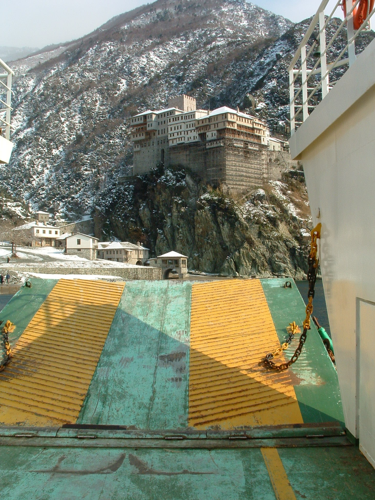 Dionysiou monastery in Mount Athos, Greece.